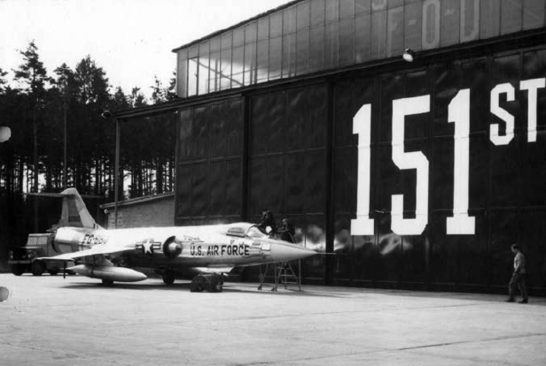 A U.S. Air Force Lockheed F-104A-25-LO Starfighter (s/n 56-0860) of the 151st Fighter Interceptor Squadron, Tennessee Air National Guard, in front of the 151st hangar at Ramstein Air Base, West Germany, in 1961-1962. Note that the aircraft has been repainted, the inscription "TENN AIR GUARD" having been replaced by "U.S. AIR FORCE".